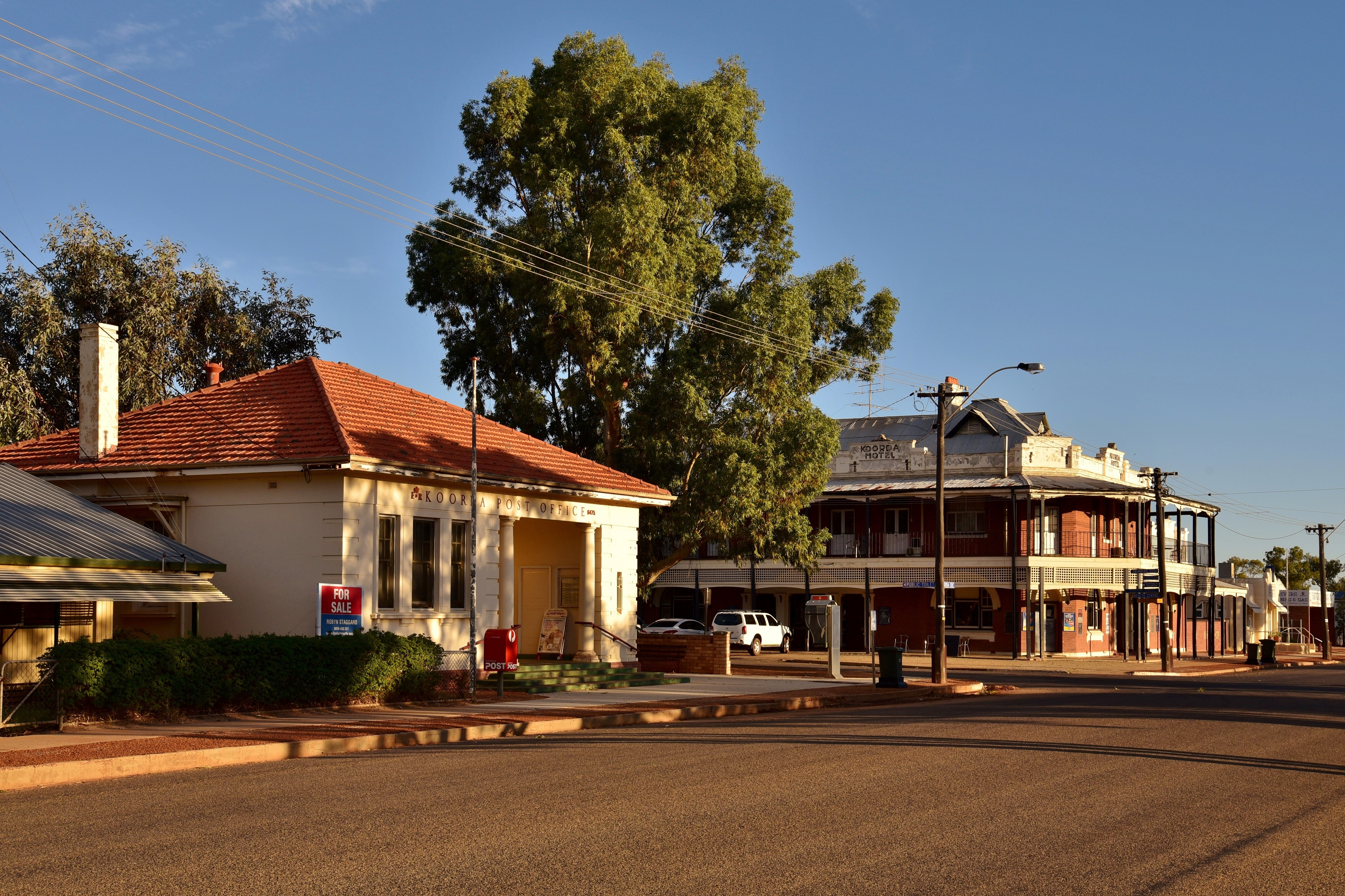 View of Railway Street, the main street of Koorda, Western Australia